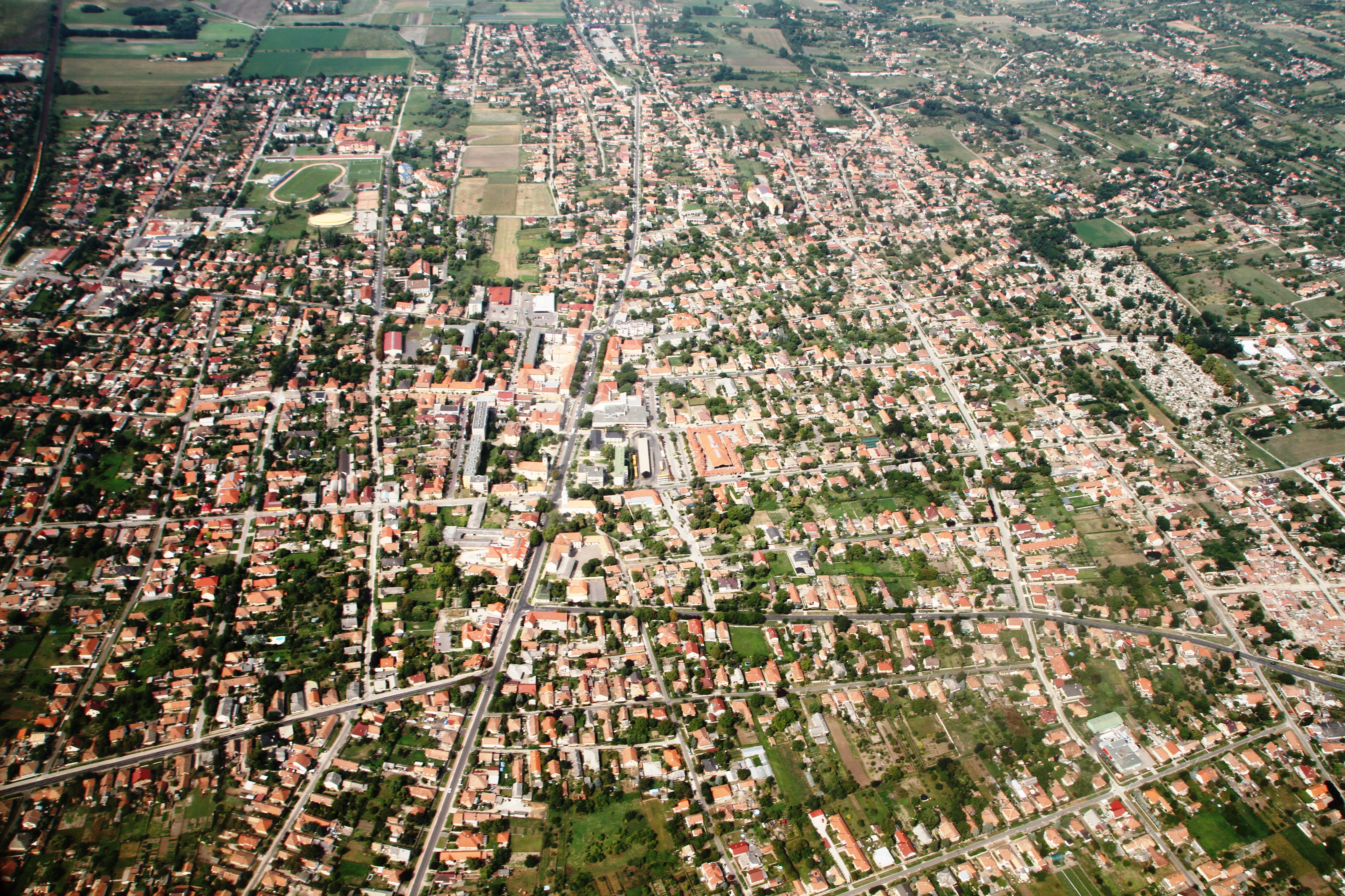 Aerial photograph over the town of Monor, Pest county, Hungary